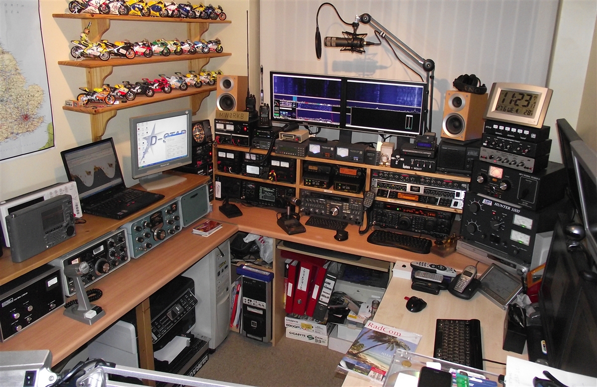 i took this photograph, all property in the photograph is owned by me